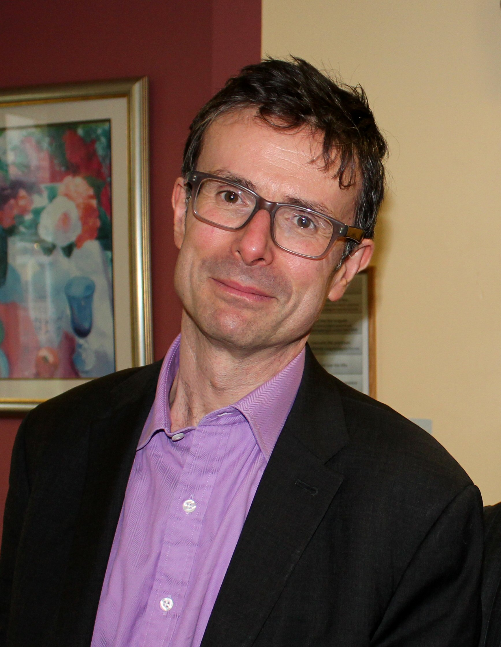 BBC Economics Editor Robert Peston, Nightingale House, London Feb 2014